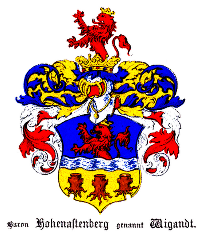 Coat of Arms of Hohenastenberg gennant Wigandt family